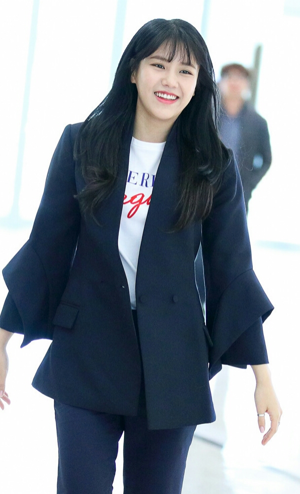 Shin Hye-jeong at 1st Fashion Streaming Service 'Project Anne' Styling Class